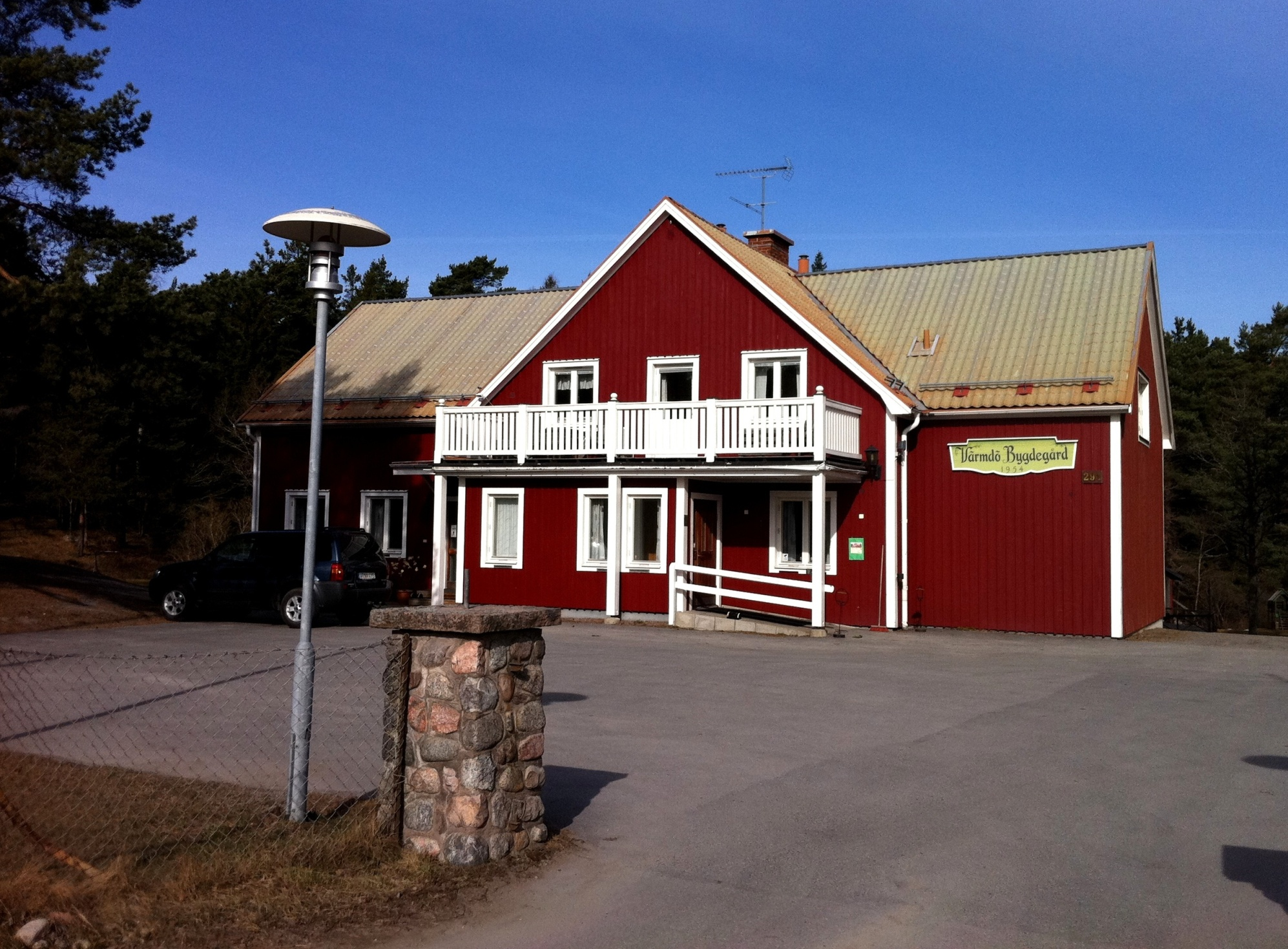 Community centre, Hemmesta, Värmdö Municipality, Sweden